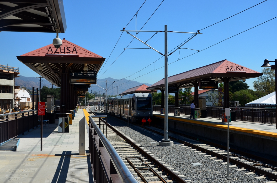 This is a photo of Azusa Downtown station on the LACMTA Gold Line.